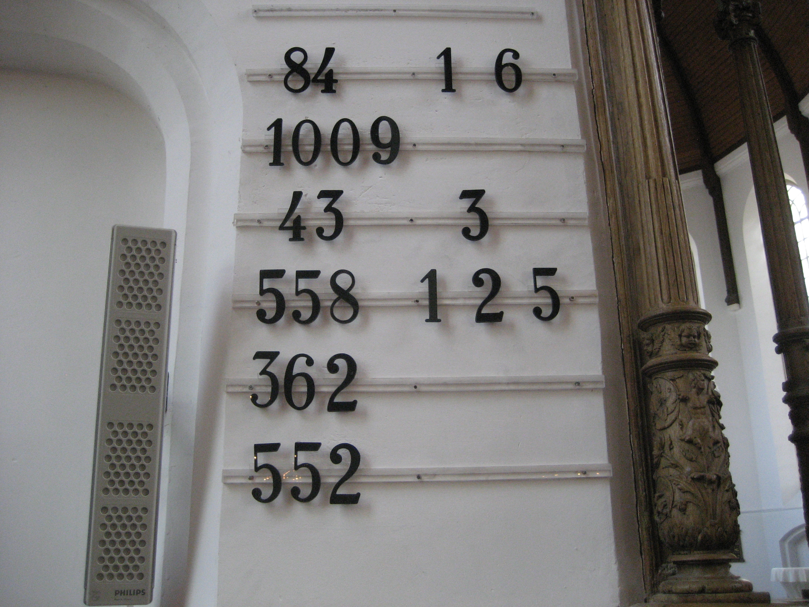 Modern hymn board. Dorpskerk Abcoude (The Netherlands)